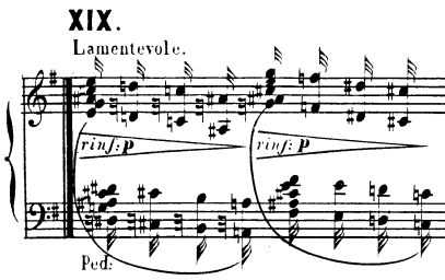 Nineteenth variation of Le festin d'Ésope, composed by by Charles-Valentin Alkan